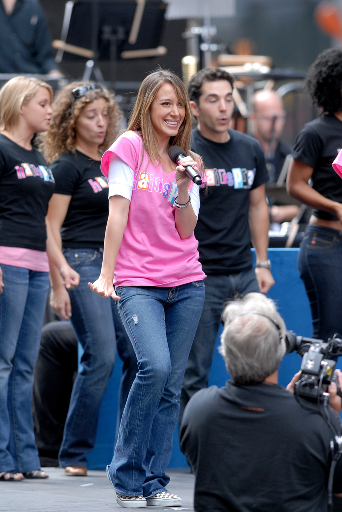 Haylie Duff of Hairspray. The cast of Hairspray performs "Mama, I'm a Big Girl Now" at Broadway on Broadway, September 10th 2006.